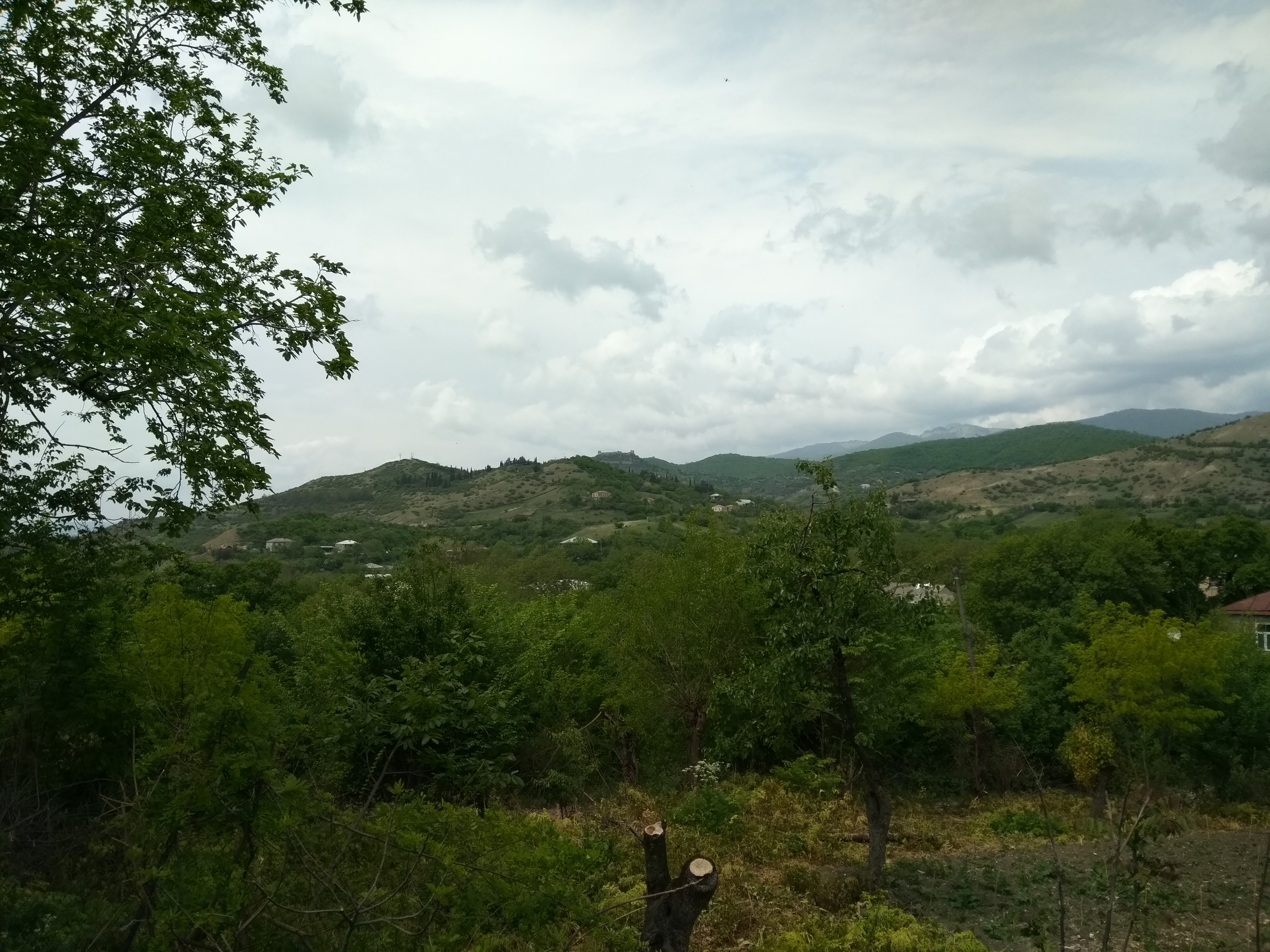 Manavi view